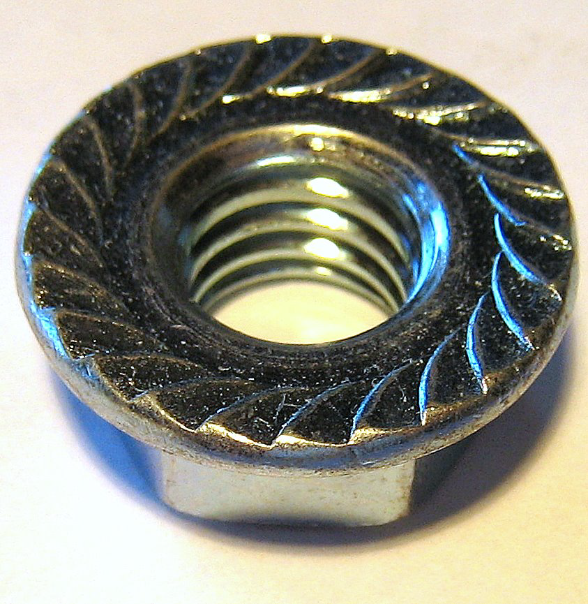 A serrated-face nut (flange nut). Original photo by btarski 9/1/07